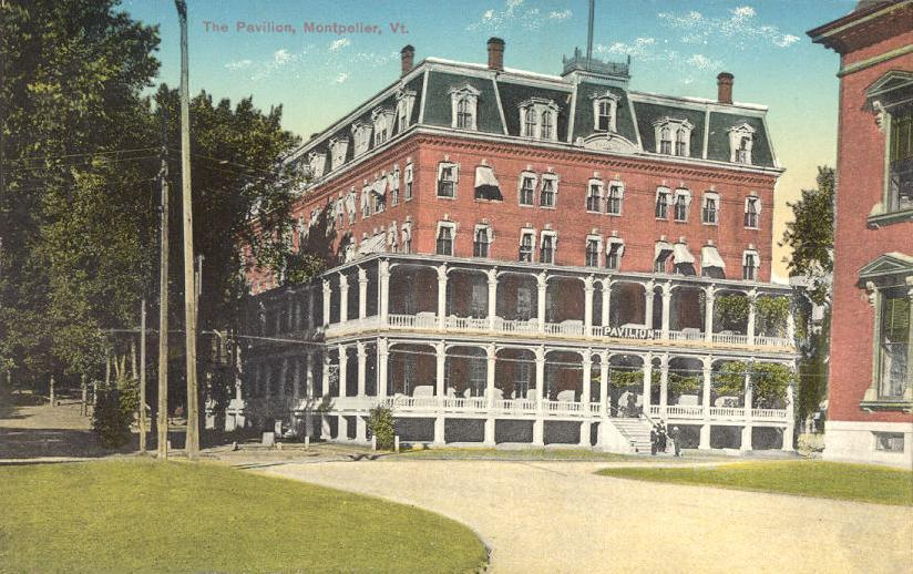 The Pavilion, Montpelier, Vermont; from a 1915 postcard published by E. T. Seguin. It opened in 1876 as Montpelier's grand hotel, but closed in 1966. Reconstructed in 1971, the building now contains governmental offices and the Vermont History Museum.